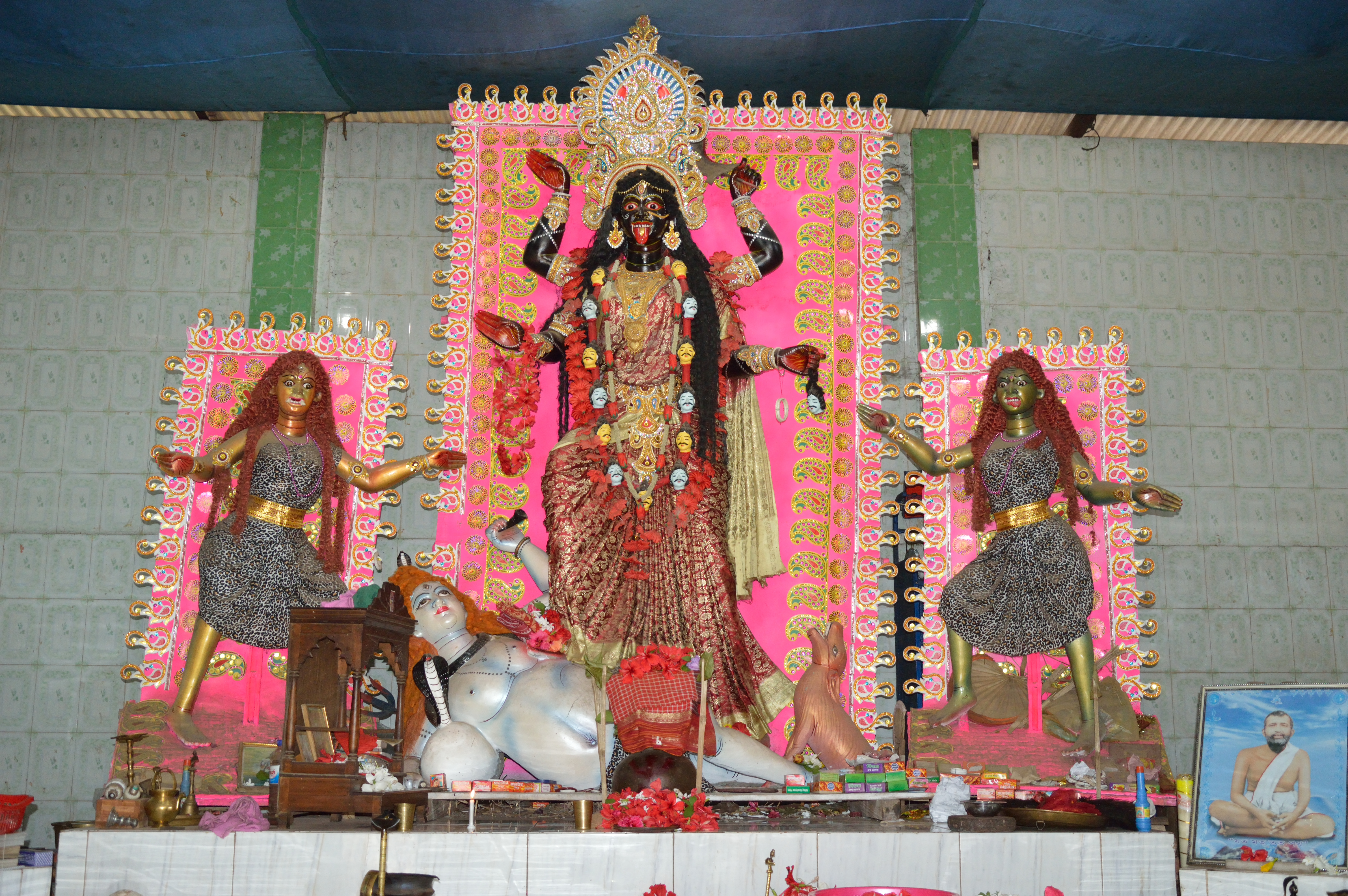 Photographed in Dhaka, Bangladesh. According to the "2000 Copyright Act of Bangladesh", artistic recreations of public architecture and art work are exceptions to the rights of authors. Exceptions to infringement states: The Copyright Act provides certain exceptions to infringement. The object of these provisions is to enable the encouragement of private study and research and promotion of education. They provide defences in an action for infringement. [...] 10. Making of a drawing, engraving or photograph of an architectural work of art, or a sculpture kept in a public place, Copyright law in Bangladesh See COM:CRT/Bangladesh#Freedom of panorama for more information. বাংলা | English | +/−